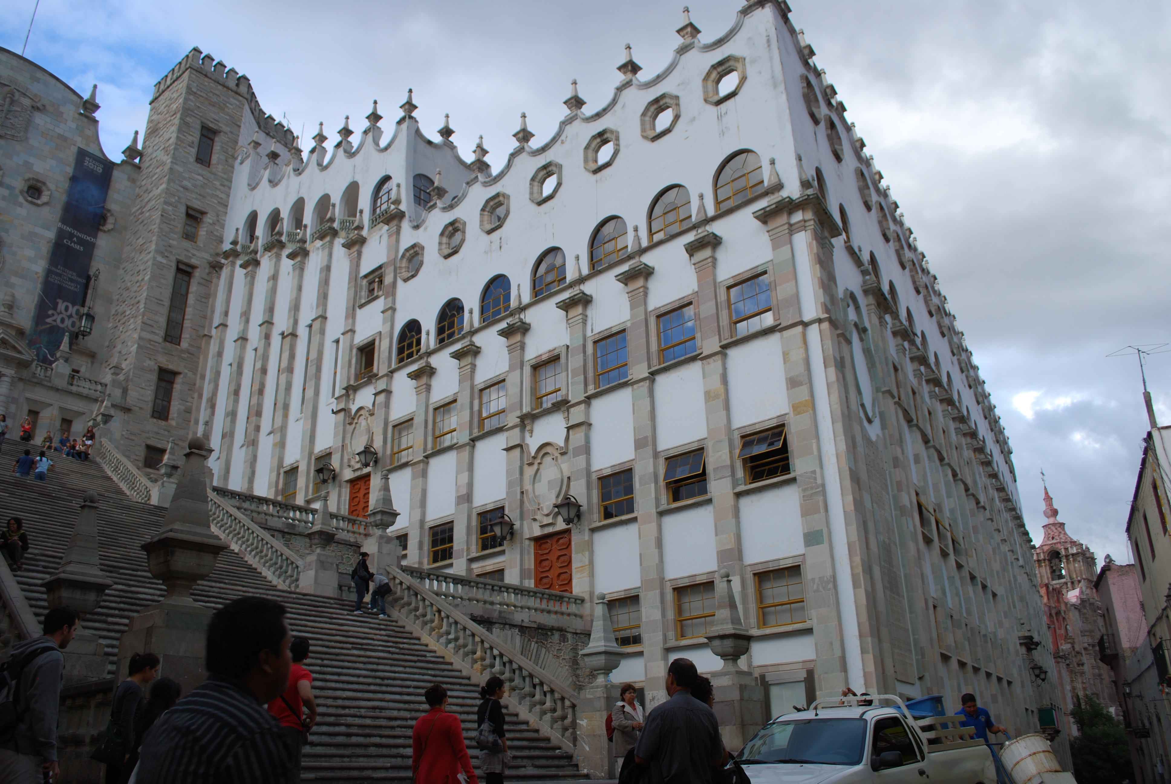 Part of the Universidad de Guanajuato building in downtown Guanajuato, Mexico